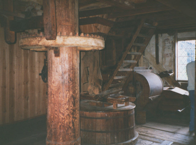 Interior of Shalford Mill. The inside of 923418.